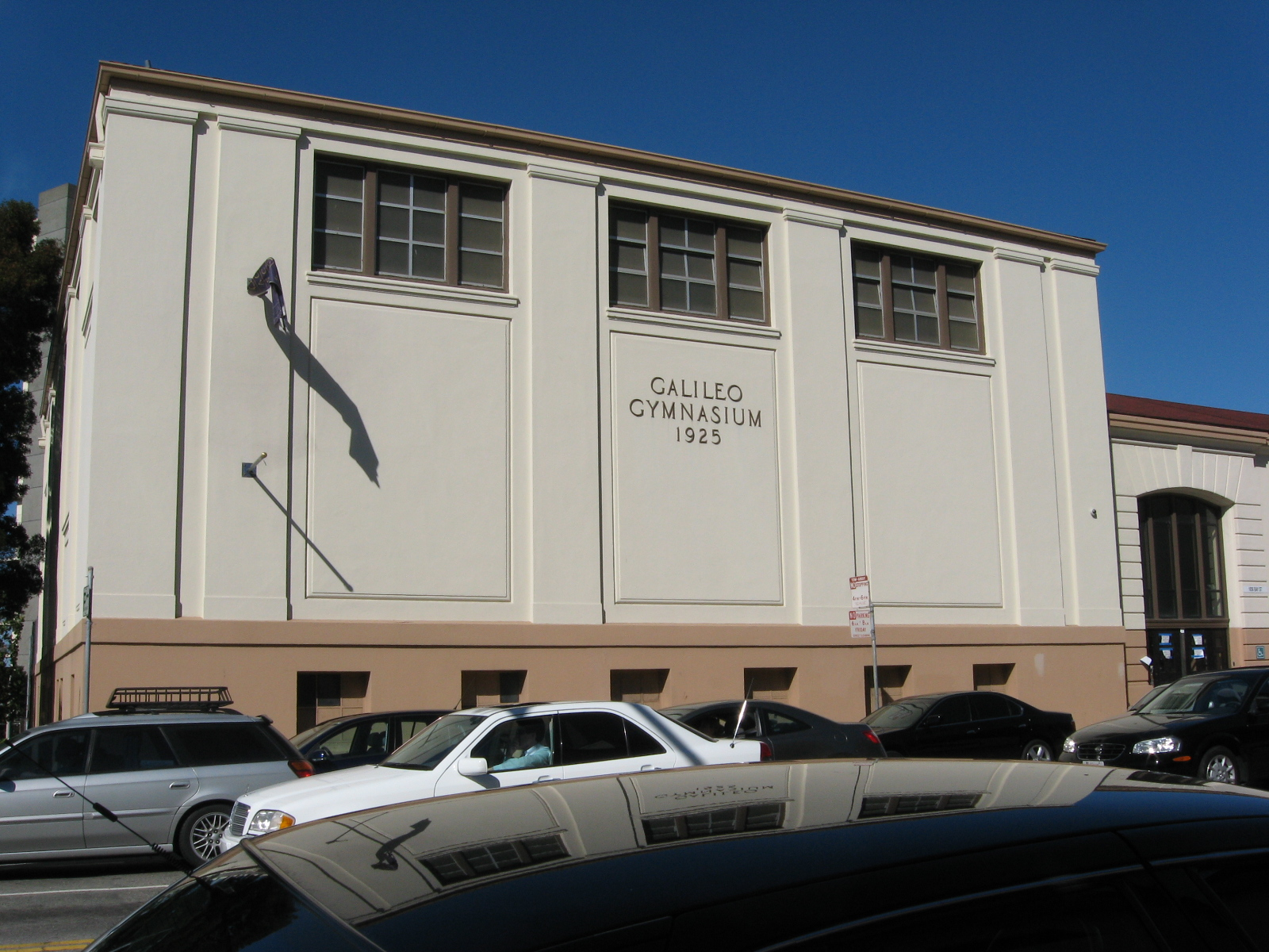 Galileo Gymnasium at Van Ness and Bay Street. This gym was built in 1925 and is currently undergoing renovation/reconstruction, just like the main building.